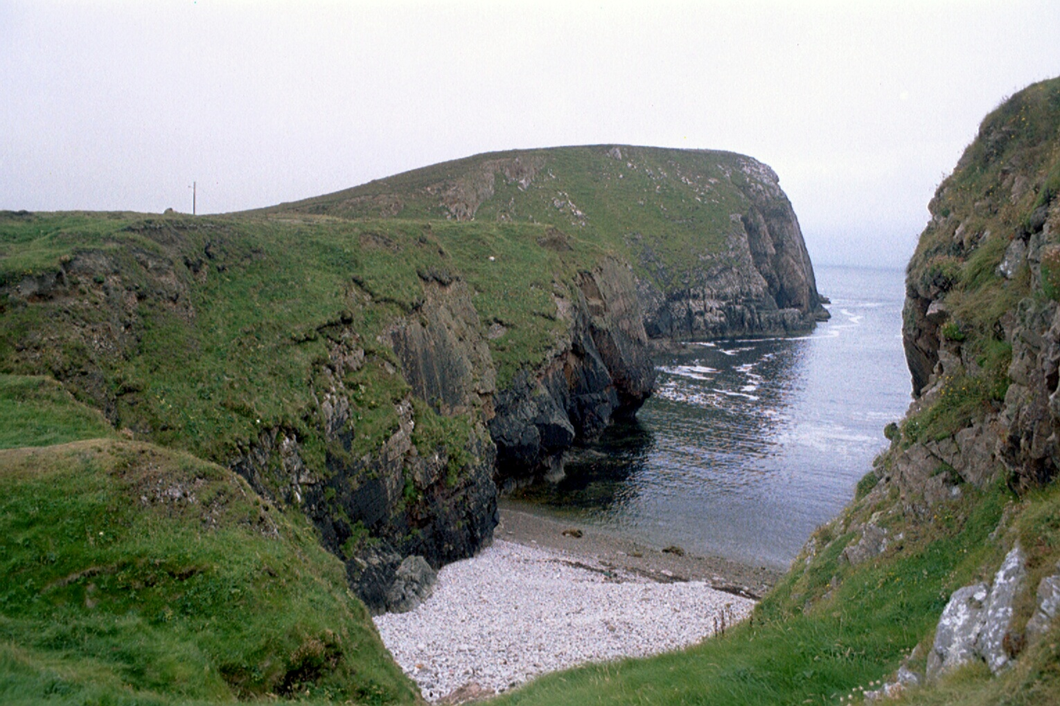 Tory Island, County Donegal, Ireland Port Challa